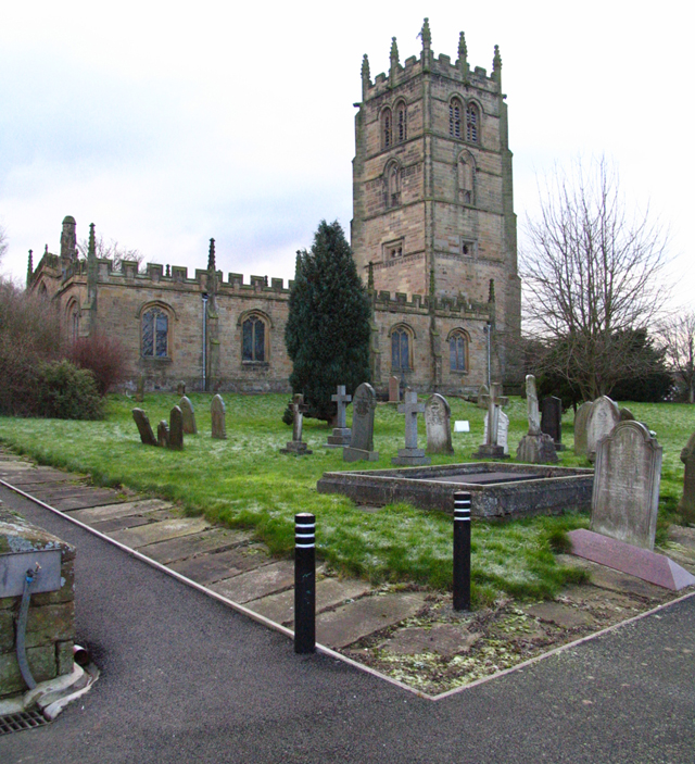 The church of St Eurgain and St Peter's church, Northop; view from churchyard